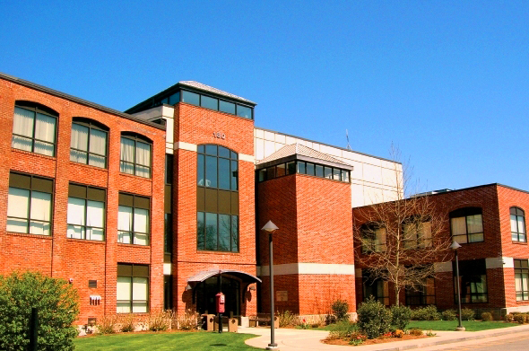 The Adams Executive Center, Old Colony Campus of the Eastern Nazarene College.